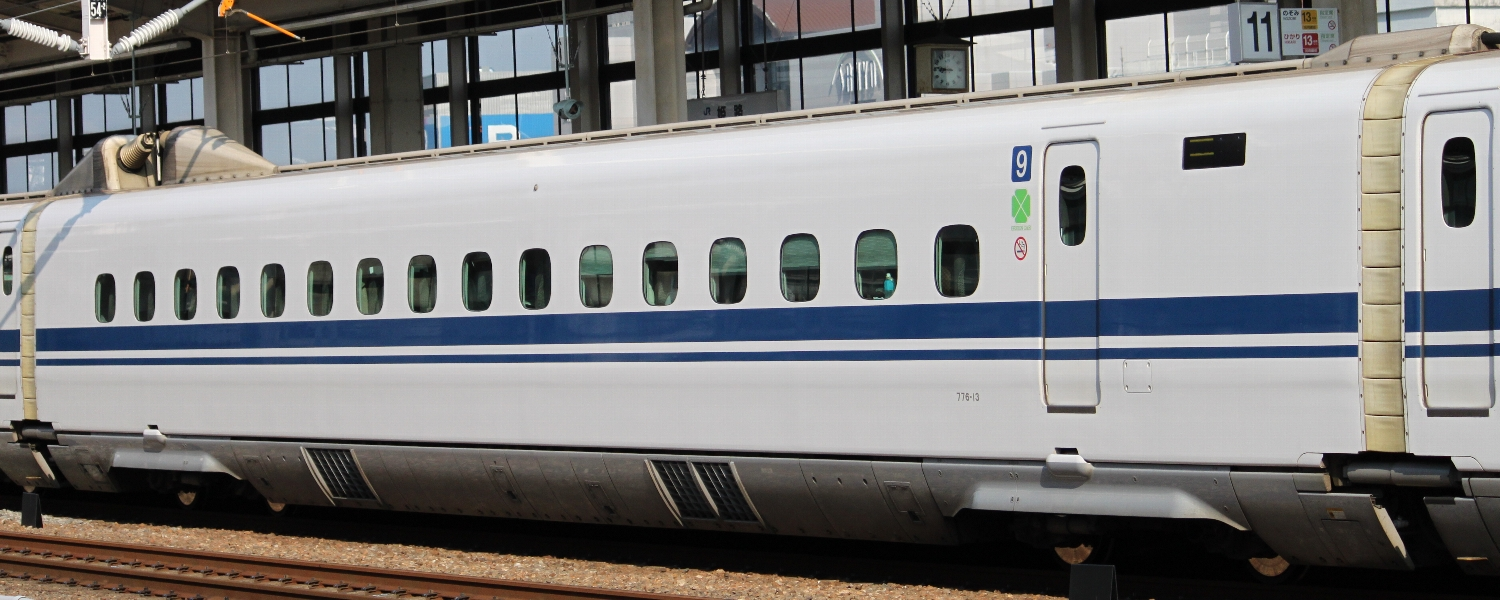 Shinkansen series N700(776-13) in Himeji Station